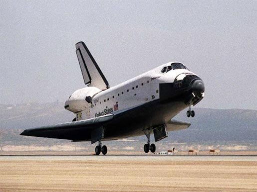 Discovery (OV-103), the third of NASA's fleet of reusable, winged spaceships, arrived at Kennedy Space Center in November 1983. It was launched on its first mission, flight 41-D, on August 30, 1984. It carried aloft three communications satellites for deployment by its astronaut crew. Other Discovery milestones include the deployment of the Hubble Space Telescope on mission in April 1990, the launching of the Ulysses spacecraft to explore the Sun's polar regions on mission in October of that year and the deployment of the Upper Atmosphere Research Satellite (UARS) in September 1991.